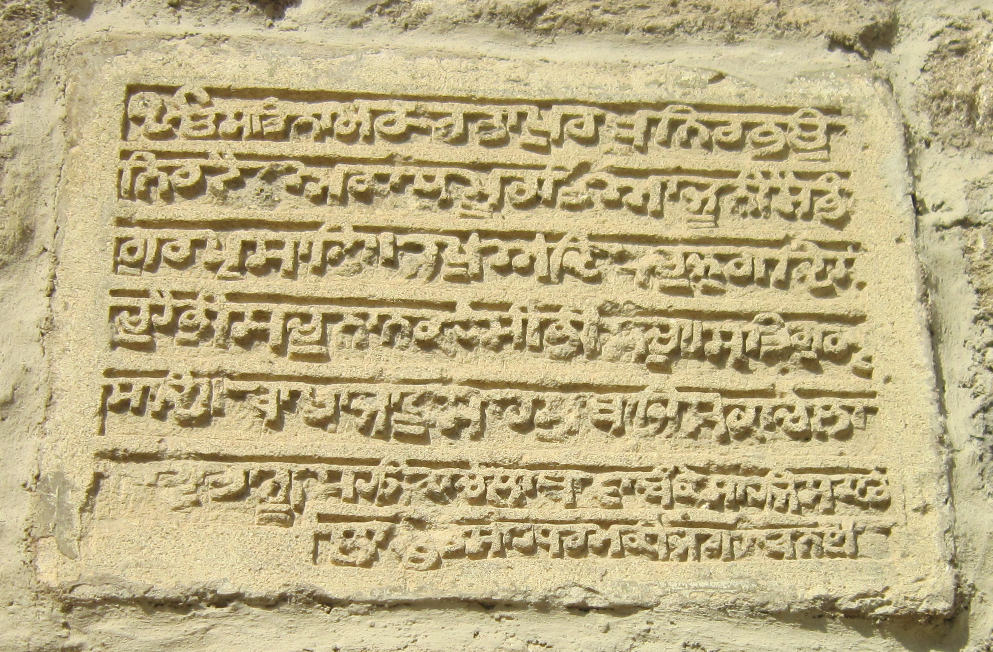 Inscription above door 18 at Ateshgah temple, Surakhany, Baku